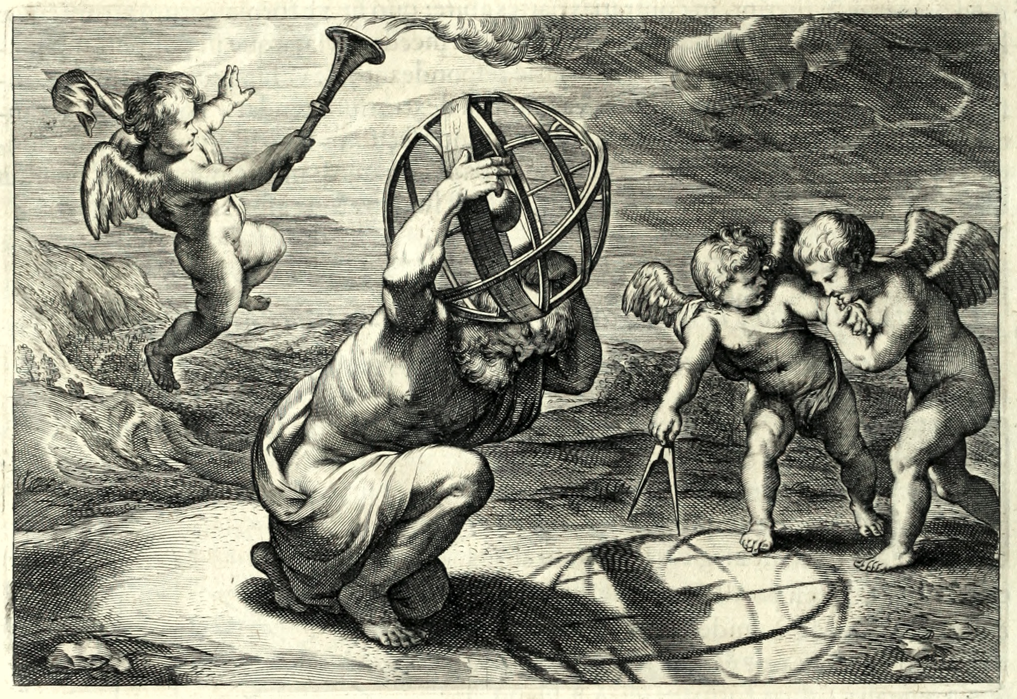 This is a scan of a work published originally in 1613 (François d'Aiguillon, Opticorum libri sex philosophis juxta ac mathematicis utiles (Six Books of Optics, useful for philosophers and mathematicians alike), Anvers, 1613) by Rubens. It is therefore in the public domain. This page is available (in context of the full book) from the Internet Archive at